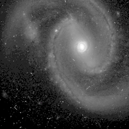 Color rendering is done by by Aladin-software (2000A&AS..143...33B.)